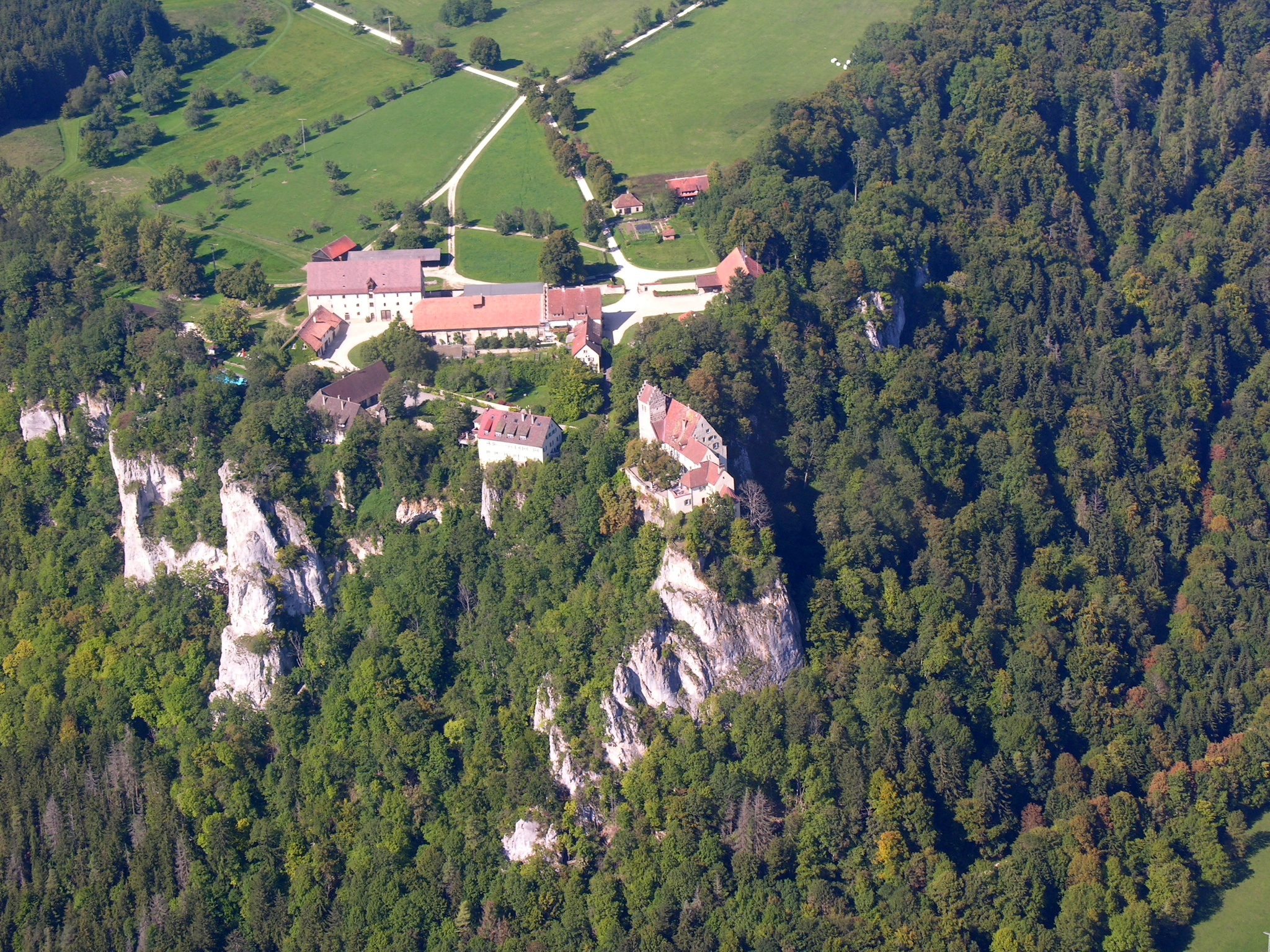 Germany, Baden-Württemberg, Aerial view of Werenwag castle